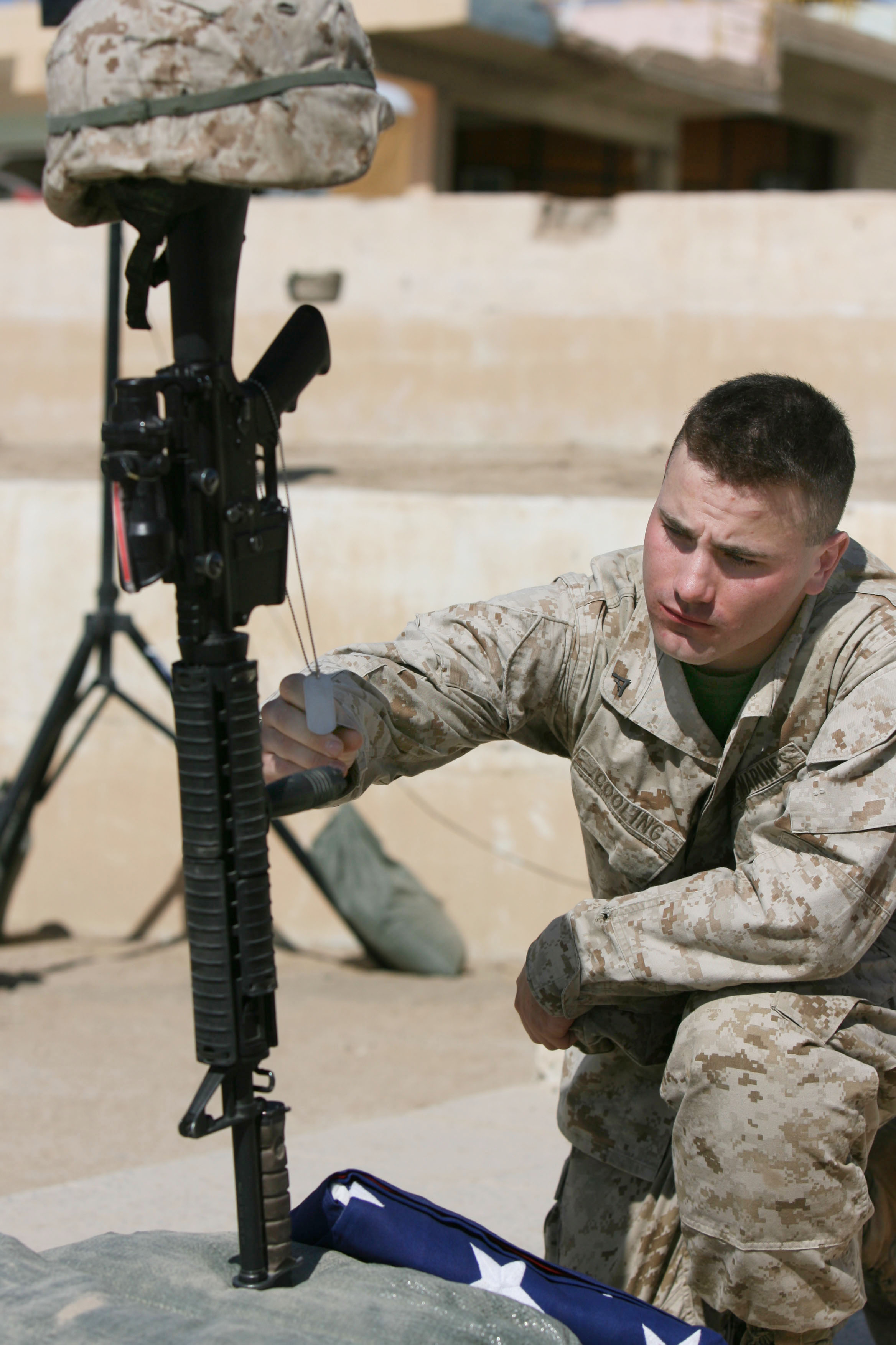 Lance Cpl. Jason C. Cooling, an infantryman assigned to C Company, 1st Battalion, 25th Marine Regiment, Regimental Combat Team 5, embraces a set of identification tags belonging to Lance Cpl. Christopher B. Cosgrove III. Twenty-three year-old Cosgrove was killed in action Oct. 1 while conducting combat operations in Al Anbar Province, Iraq. A memorial service was held Oct. 8, where hundreds of fellow Marines and sailors gathered to honor Cosgrove. He was from Cedar Knolls, N.J.